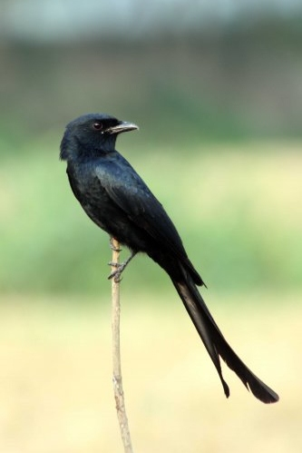 Black Drongo resting on a branch